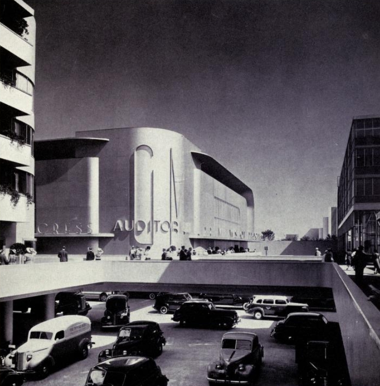 Detail of the Futurama exhibit at the New York World Fair 1939-40, showing a street intersection in the City of Tomorrow.